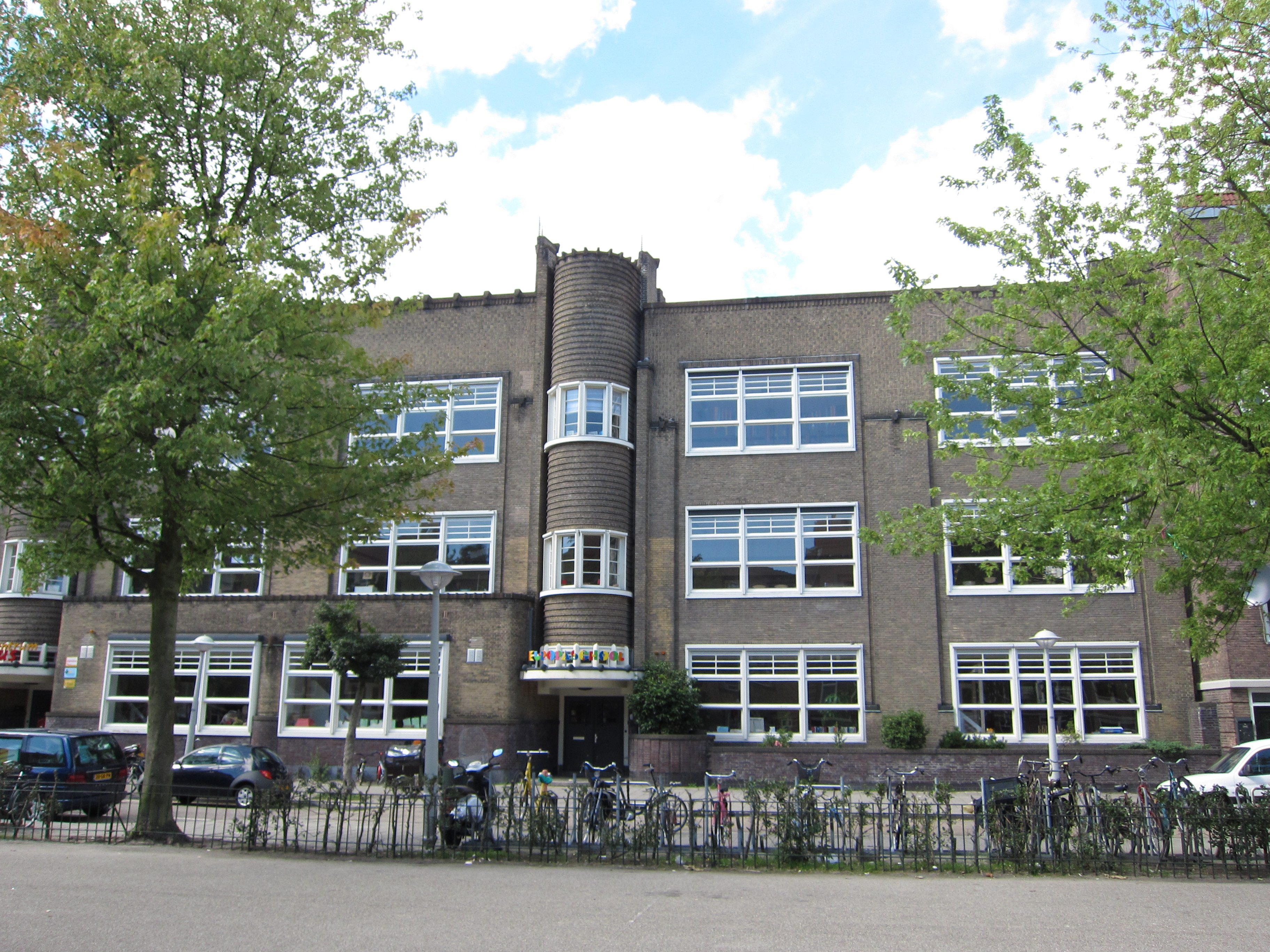 Europaschool, Hygieaplein 40, Amsterdam